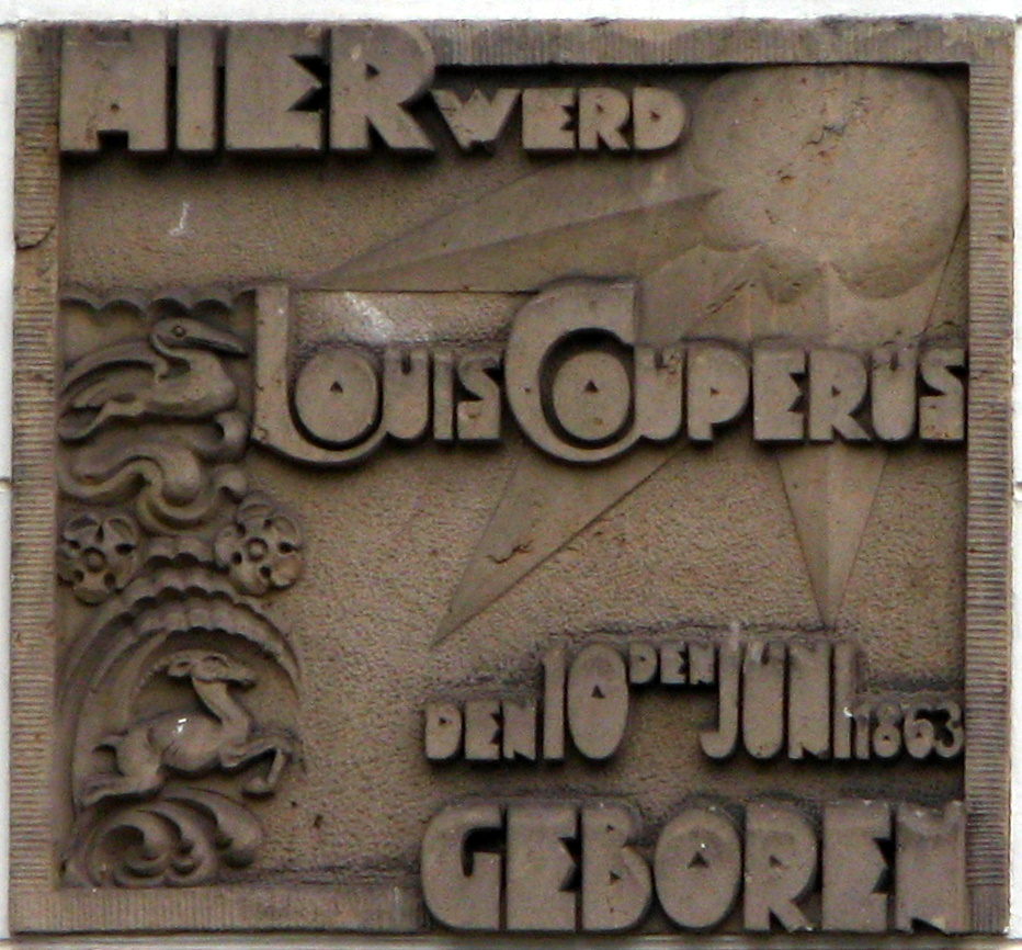 Louis Couperus, place of Birth